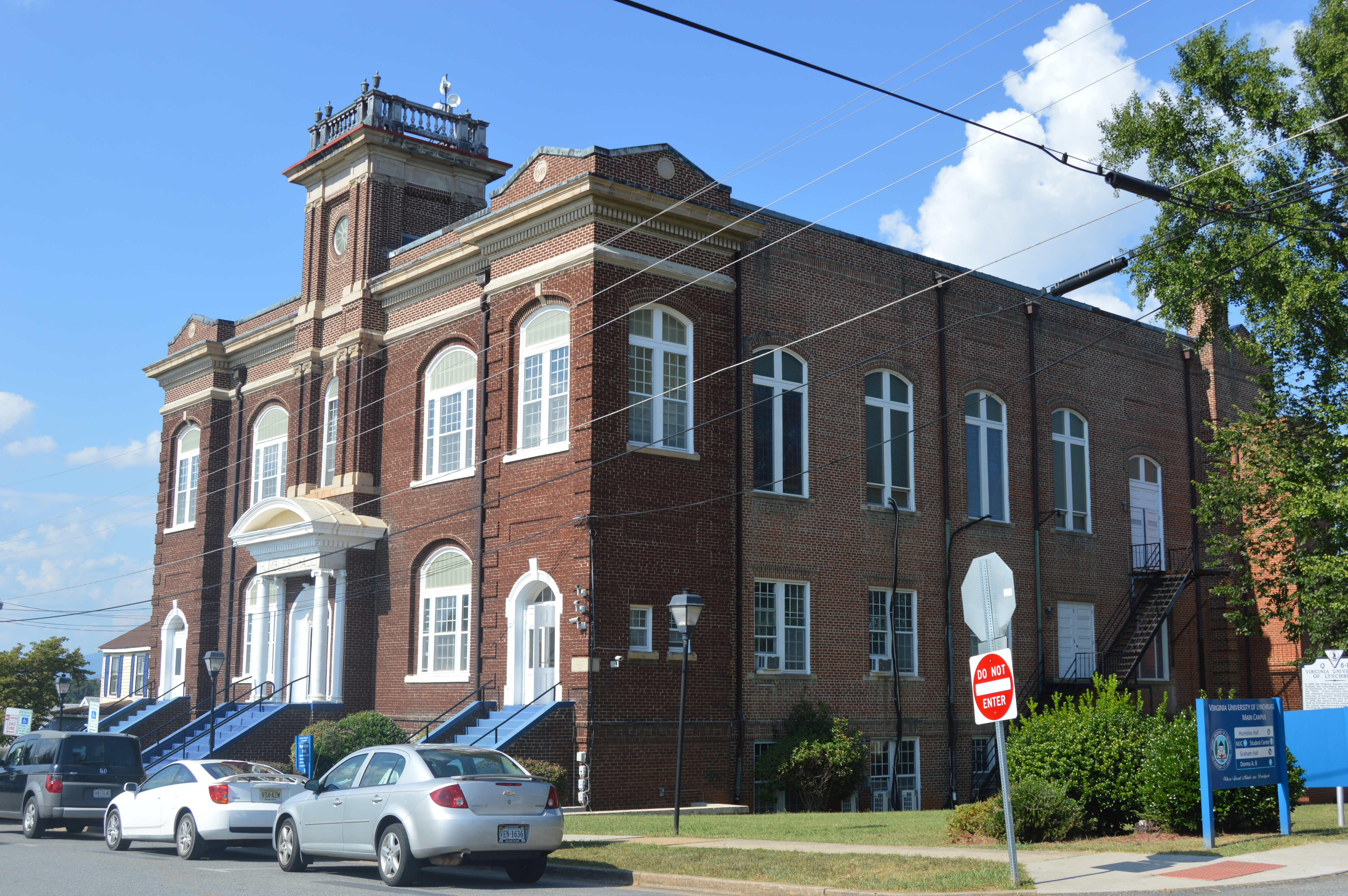 Front and southern side of Humbles Hall, located along Garfield Avenue on the campus of the Virginia University of Lynchburg in Lynchburg, Virginia, United States. Built in 1921, it is part of the campus historic district, which is listed on the National Register of Historic Places.